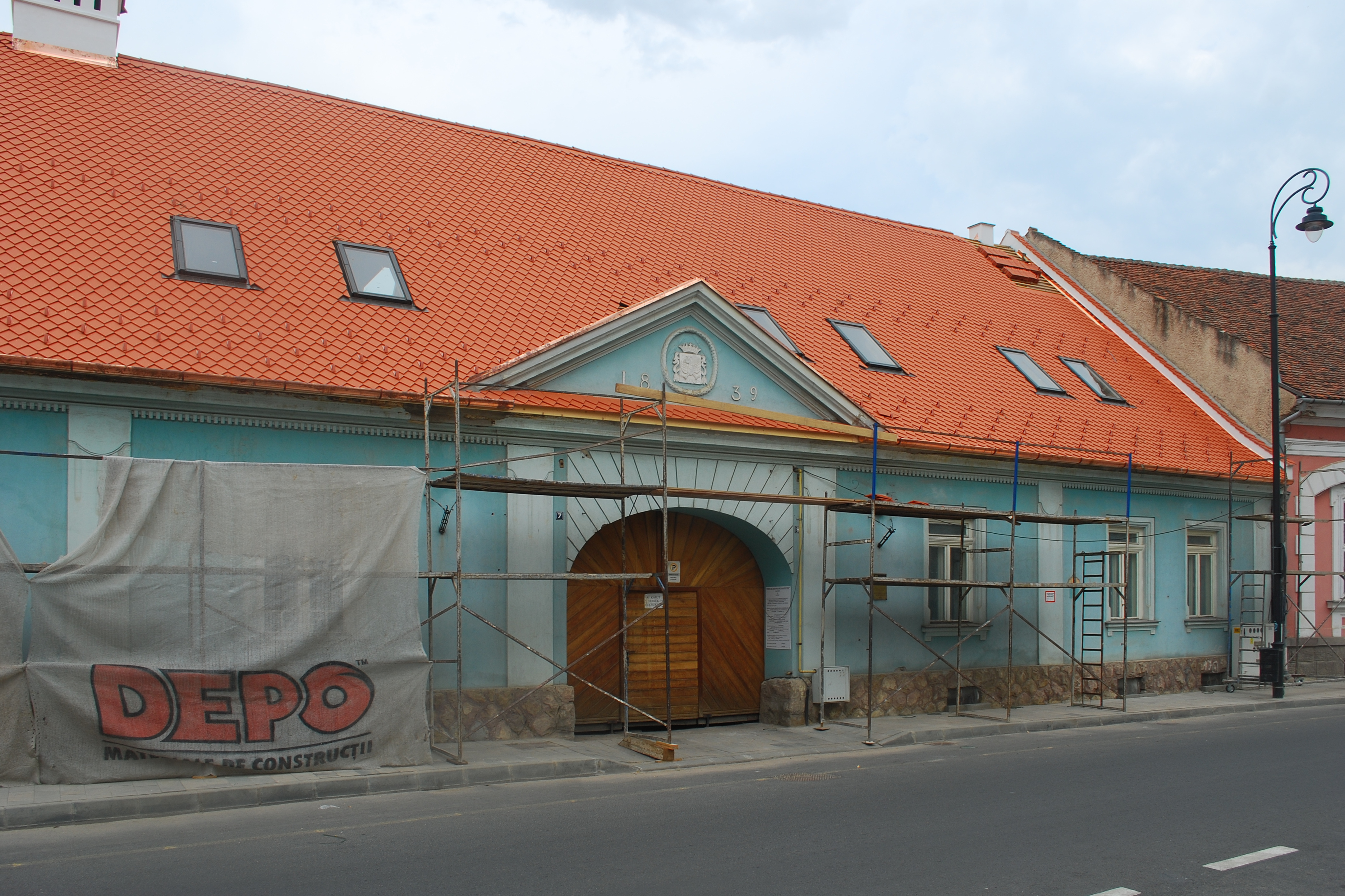 Pünkösdi house in Sfântu Gheorghe, Covasna County, Romania